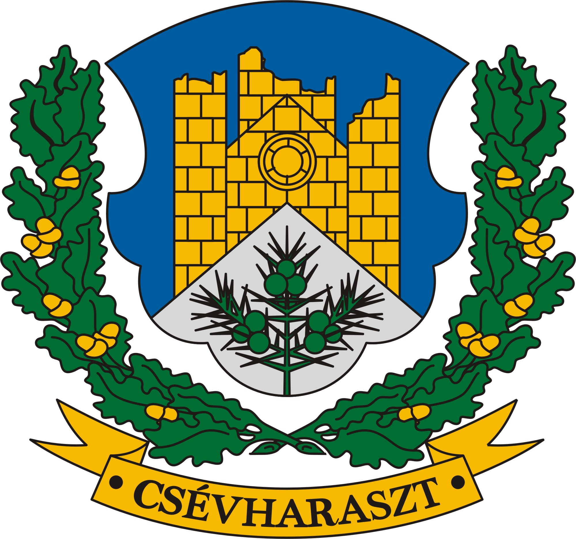 Coat of arms of Csévharaszt, Hungary